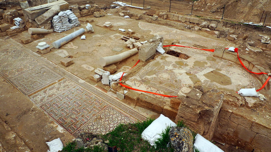 צפרירים Tzafririm, Israel, Horvat Midras - byzantine church mosaics